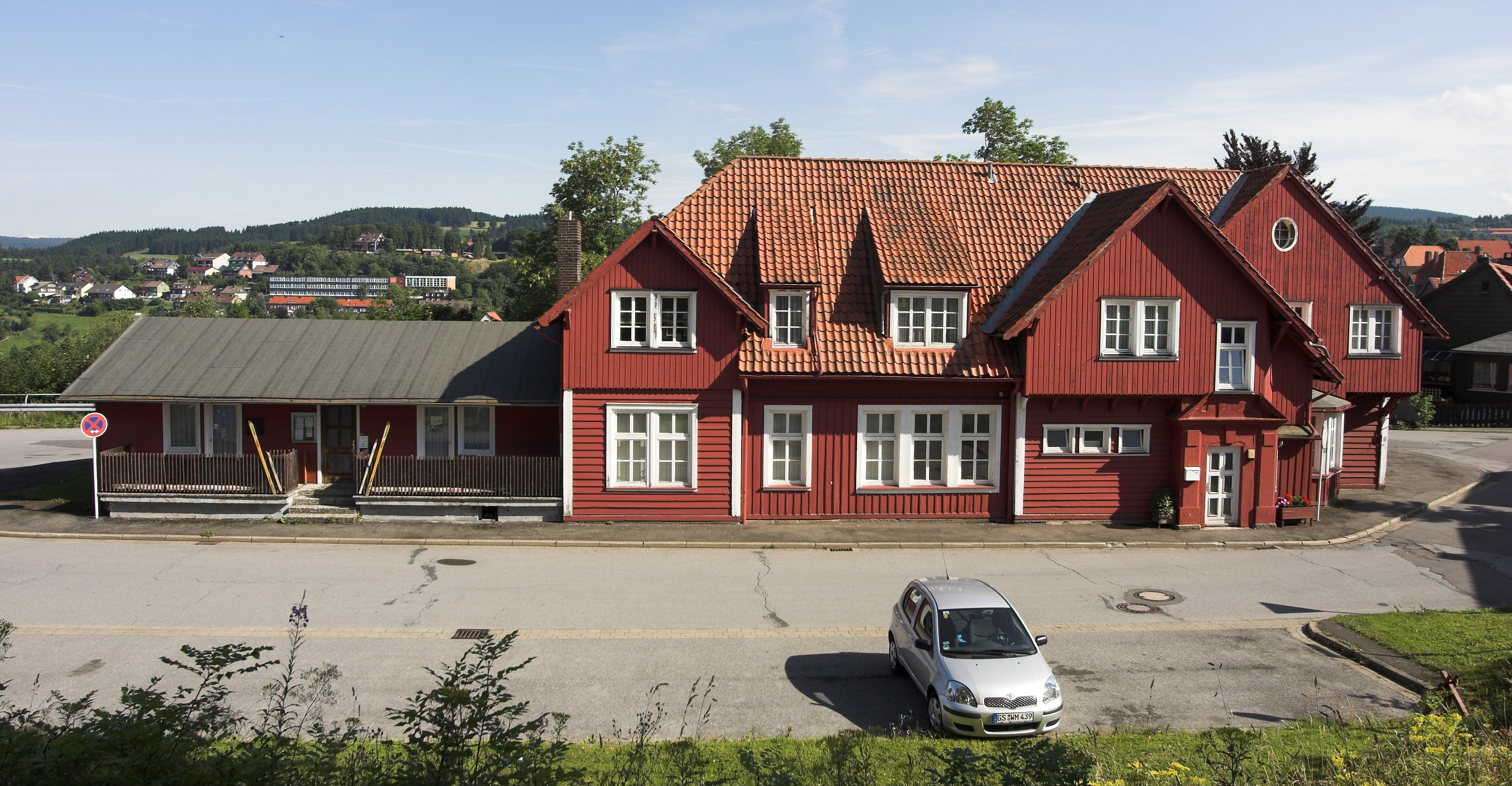 Bahnhof St. Andreasberg (Endstation)